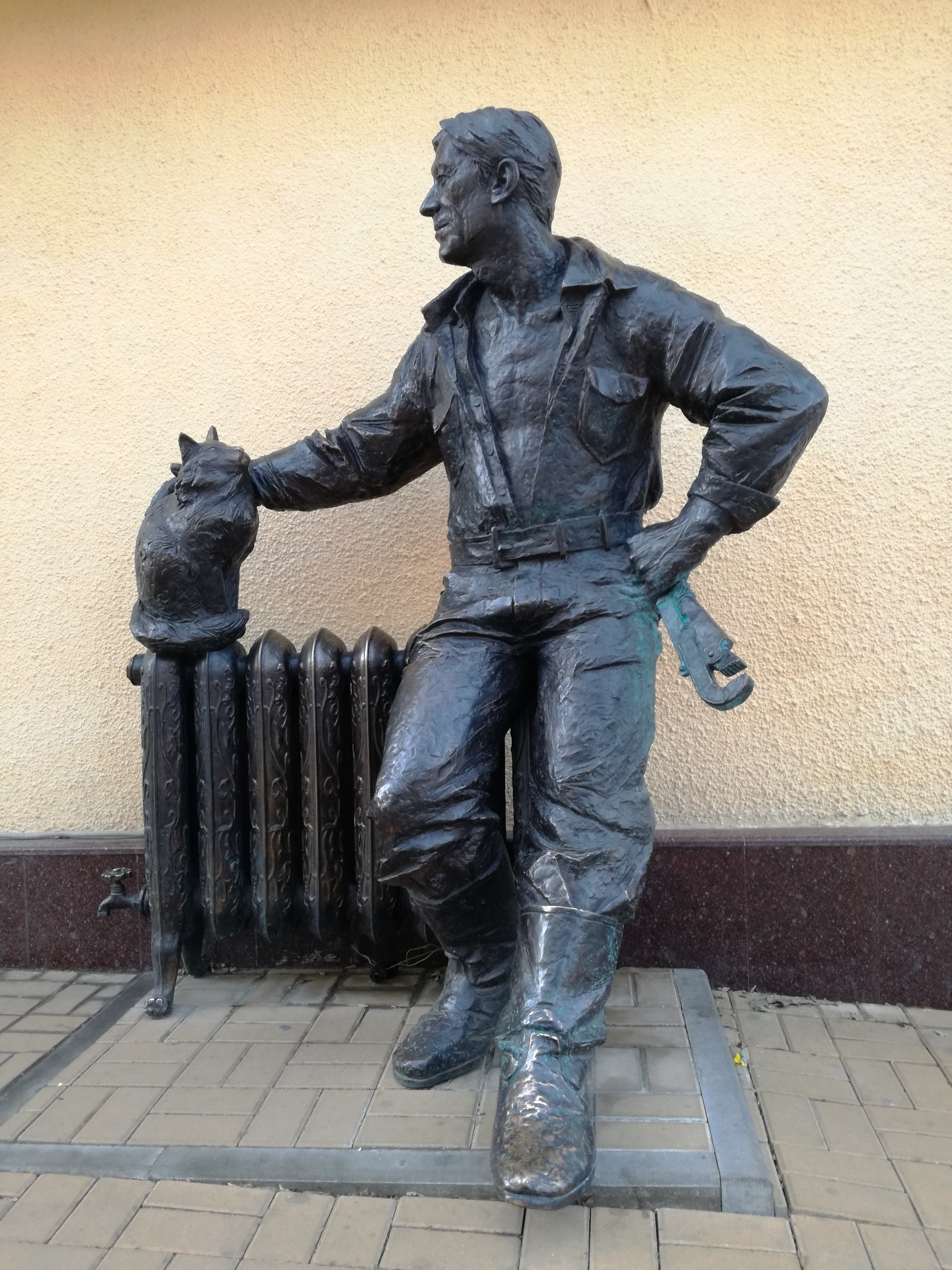 Rostov